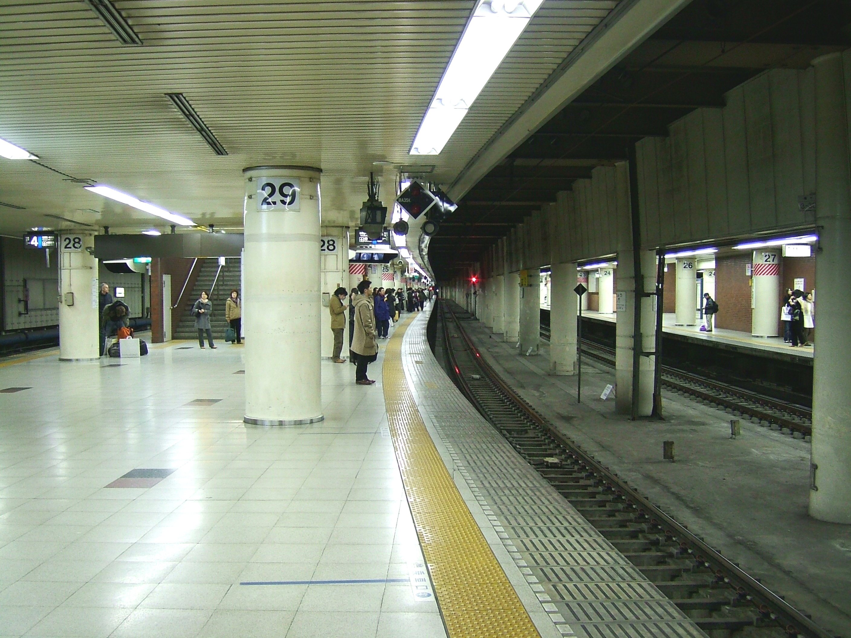 Tokyo Station (Sobu Main Line)